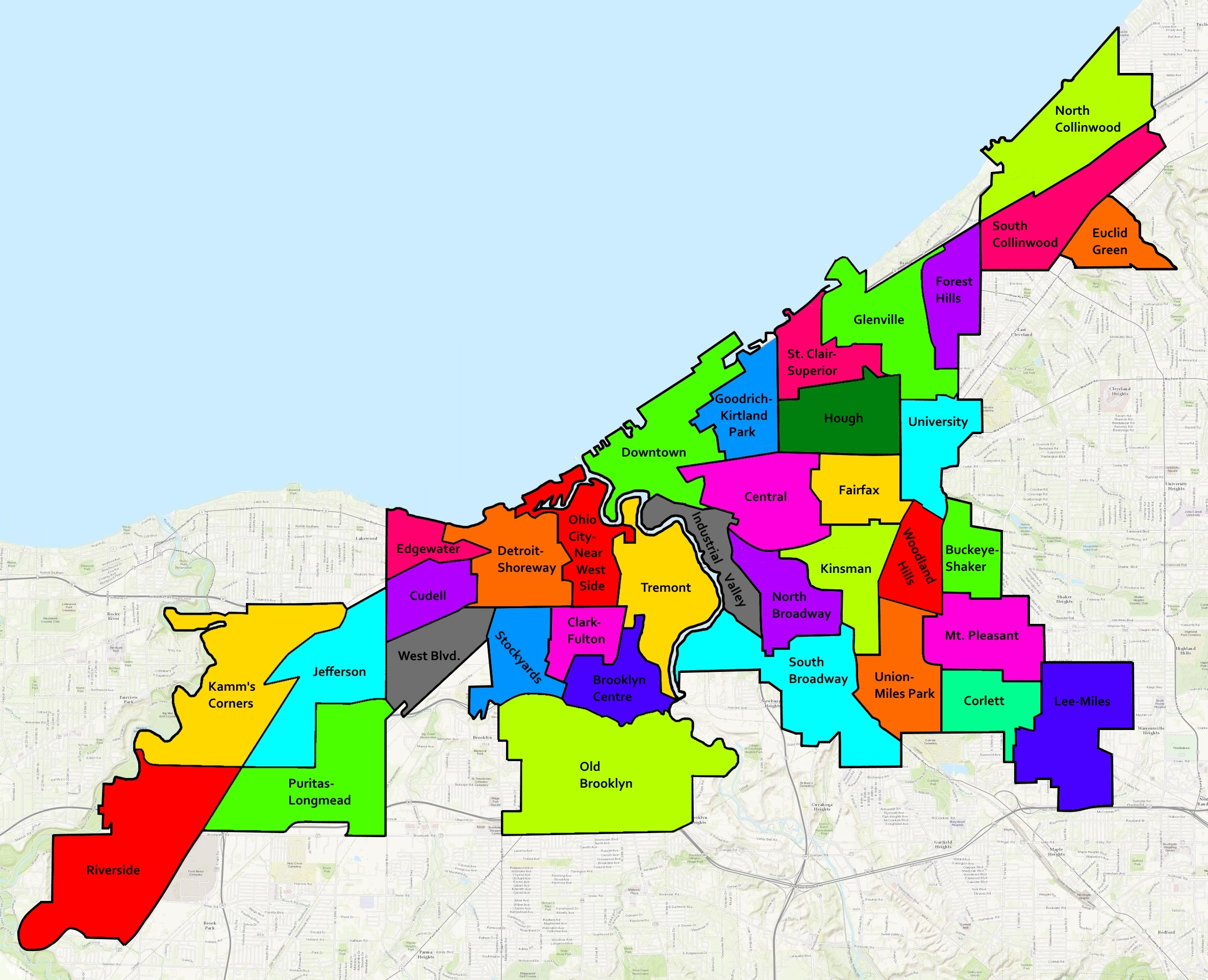 Map of the approximate boundaries of the neighborhoods of Cleveland, Ohio, in the United States, with each neighborhood labeled and colored.